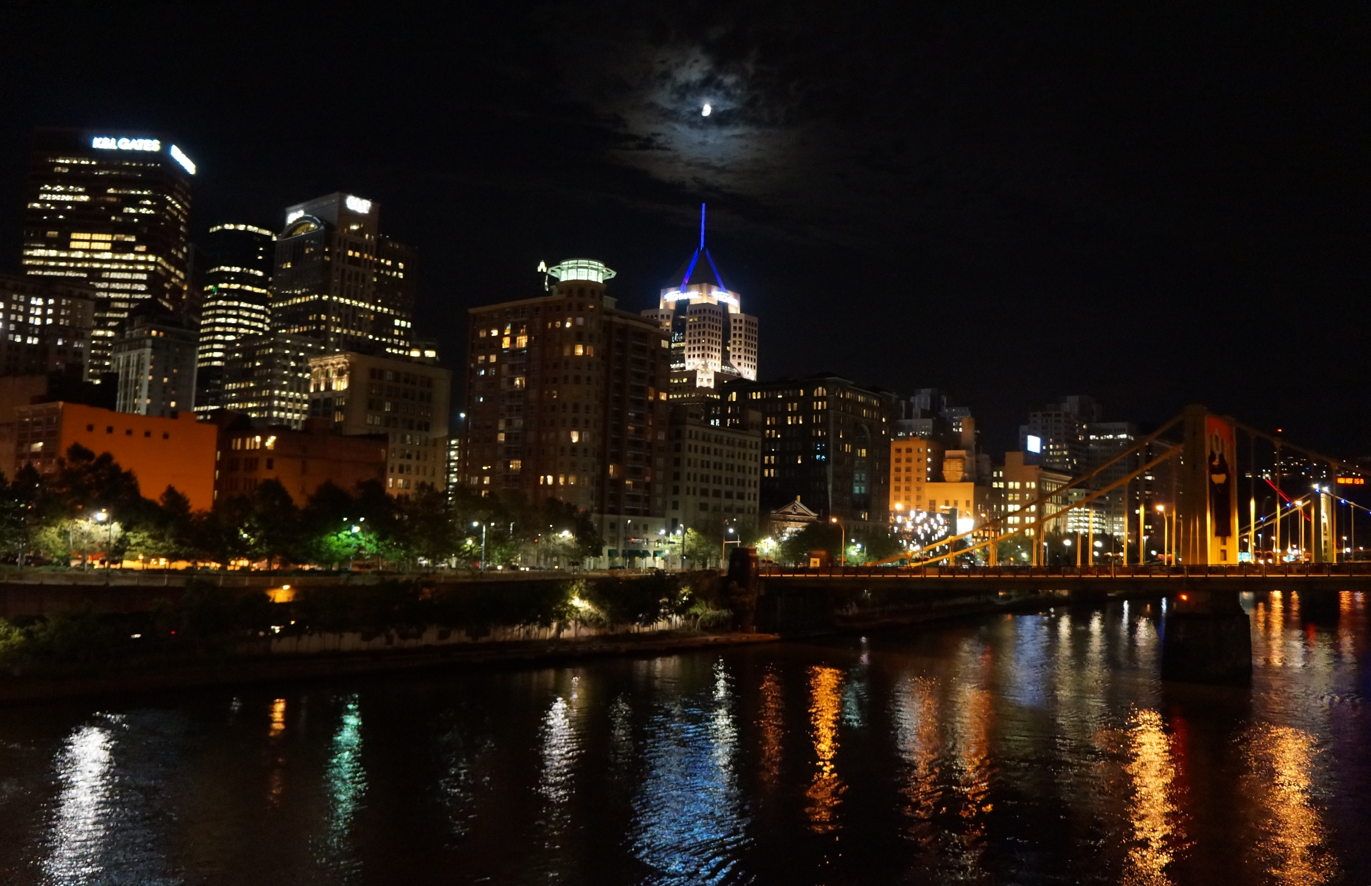 Rachel Carlson Bridge